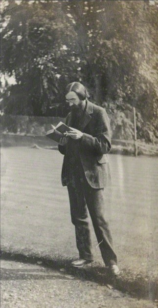 Lady Ottoline Morrell (1873-1938), vintage snapshot print/NPG Ax140336. Lytton Strachey, 1911-12